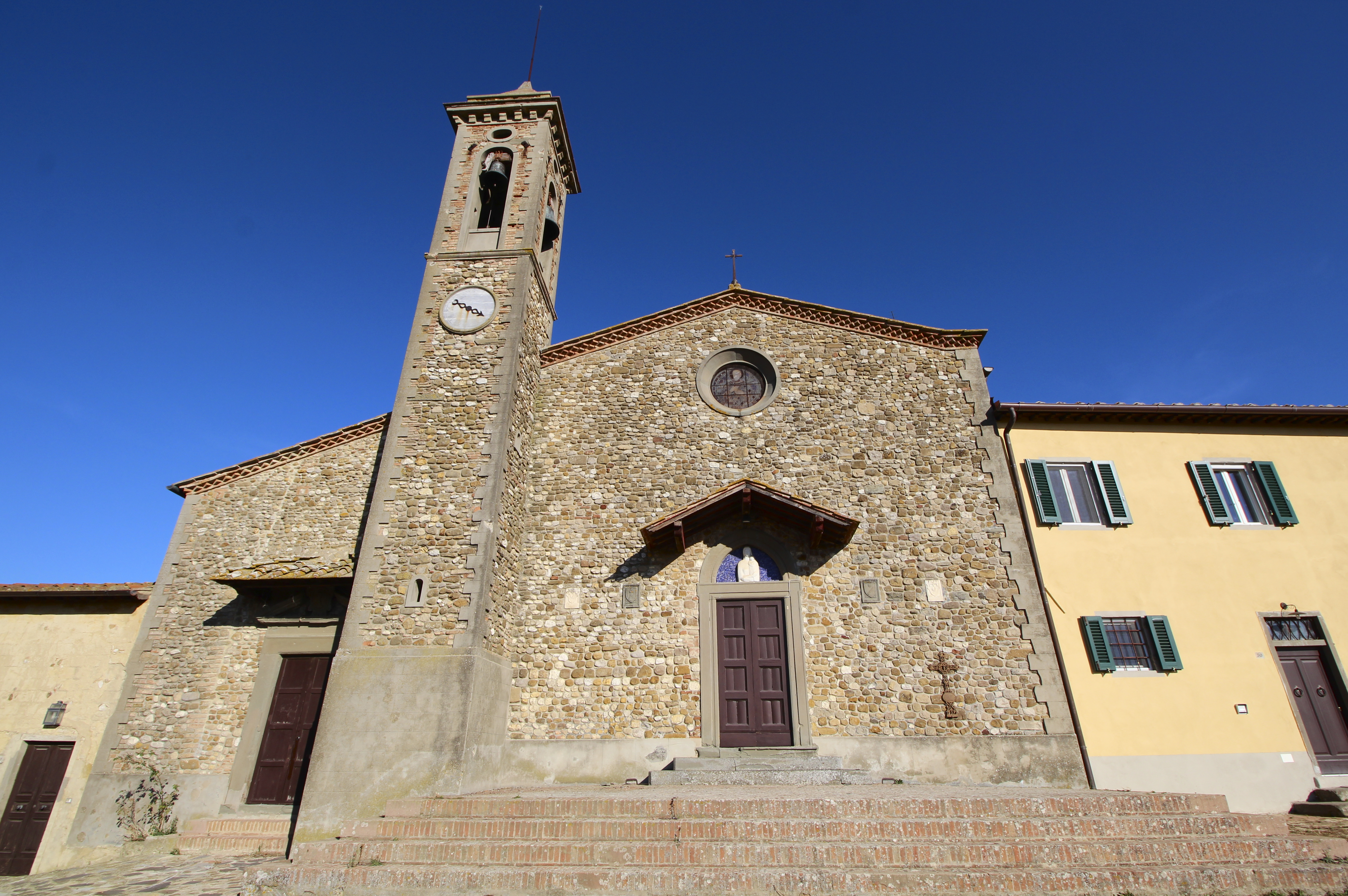 Church Sant'Antonino, Bonazza, Tavarnelle Val di Pesa, Metropolitan City of Florence, Tuscany, Italy